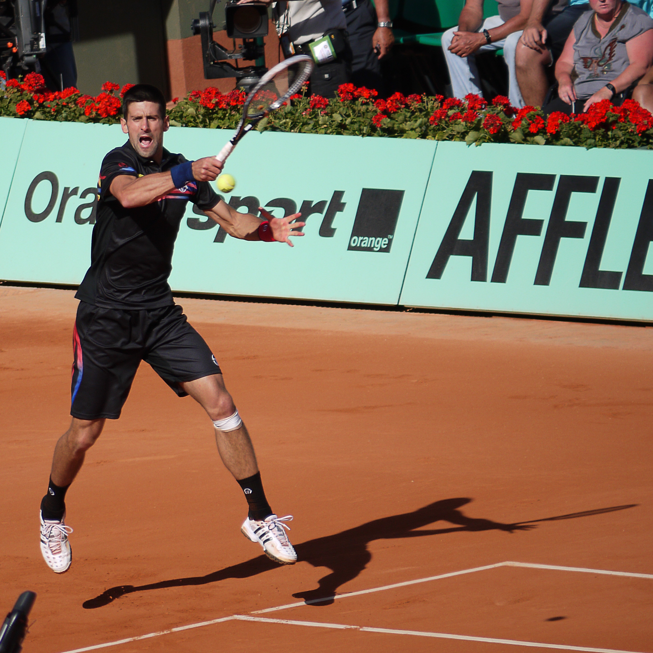 Novak Djokovic (SRB) def. Victor Hanescu (ROU) Roland Garros 2011 - mercredi 25 mai - 2ème tour - Court Philippe Chatrier